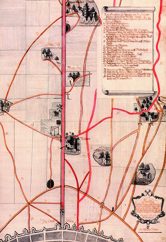 Map by Queckenberg - Hof Melaten near Cologne (1743)